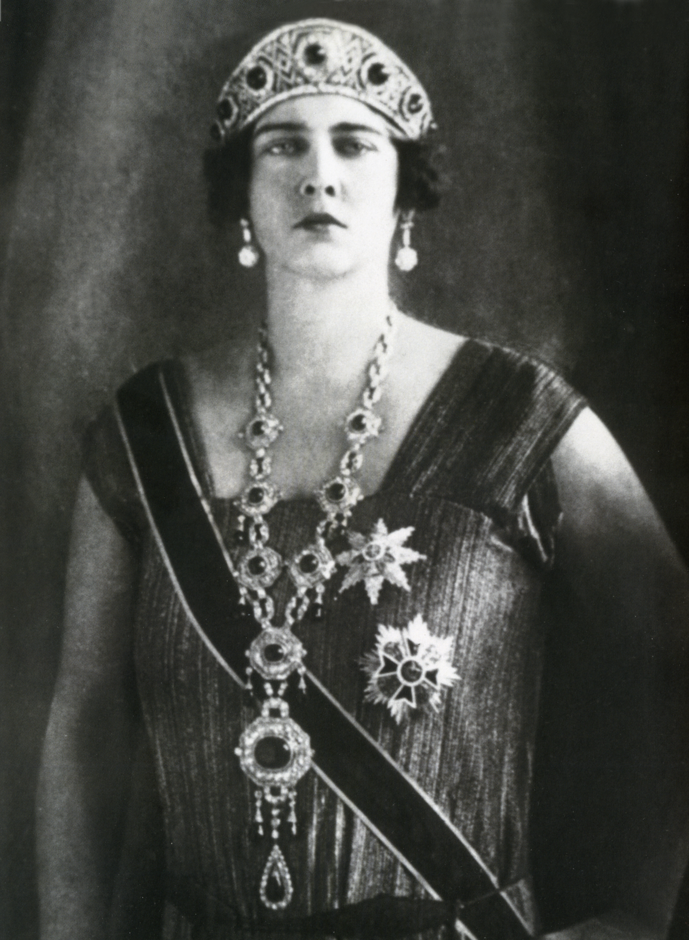 Princess Marie of Romania